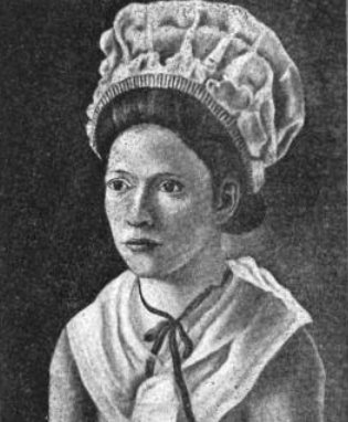 Ann Darragh. daughter of Lydia Darragh